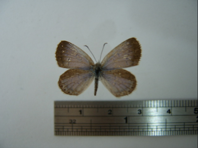 Kerry took this picture at his house on 16 July 2005 Scientific name: Zizeeria maha okinawana (back) Date of collection: 10 XI 1996 Place of collection: Taipei city, Taiwan